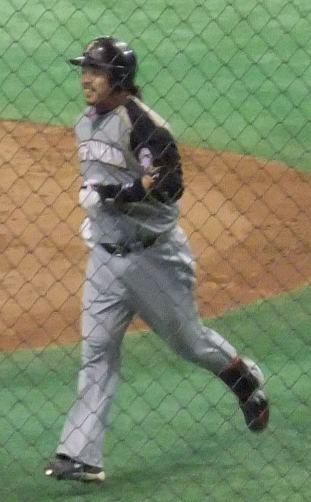 Eiichi Koyano, infielder of the Hokkaido Nippon-Ham Fighters, at Tokyo Dome.